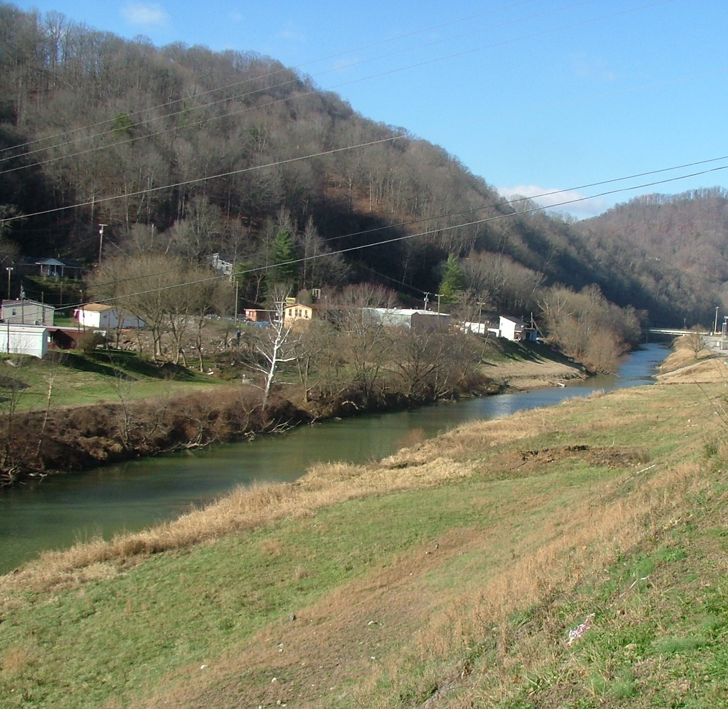 North Fork of the Kentucky River near Combs, Kentucky. Picture taken from Perry County Park